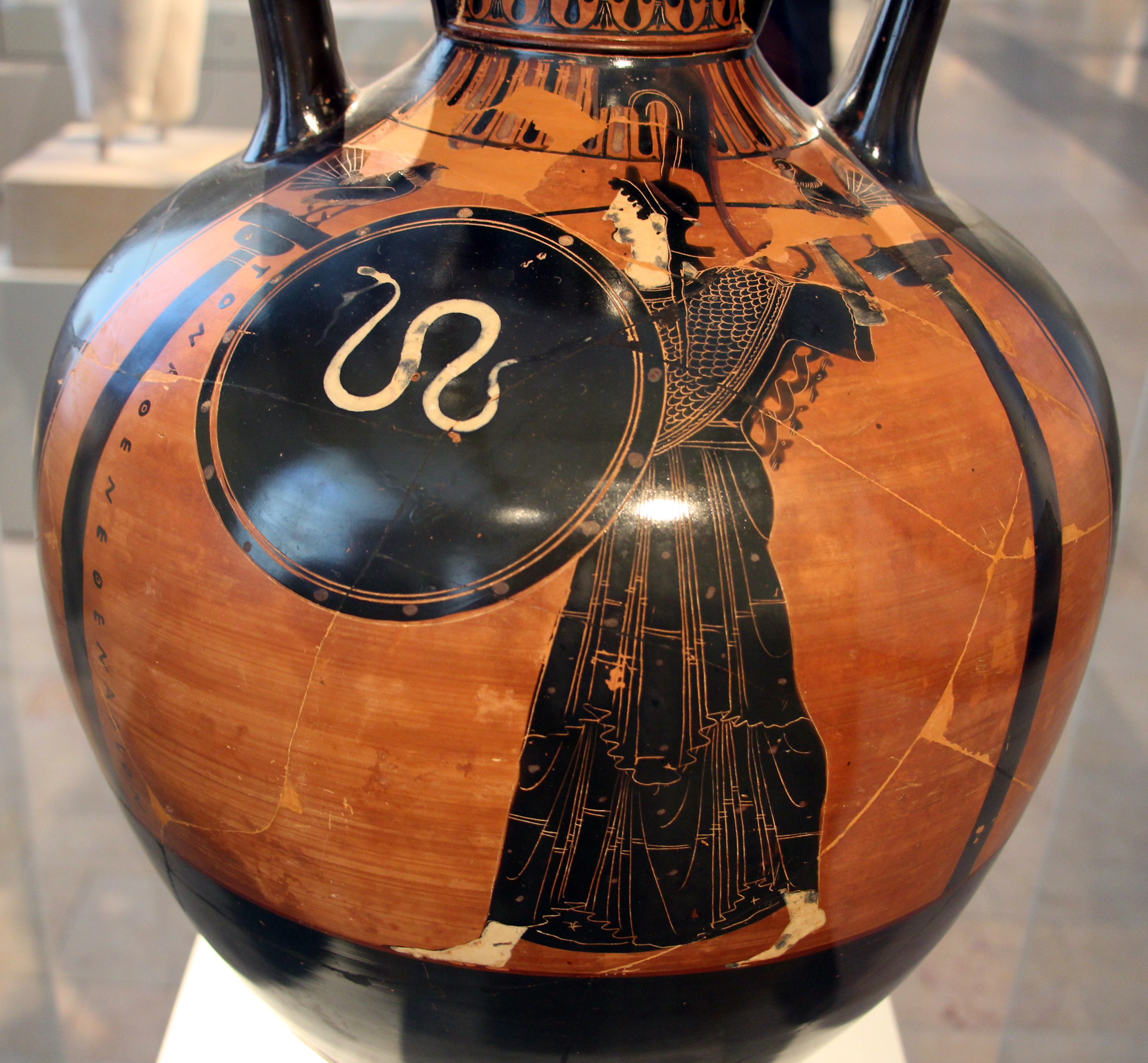 Ancient Greek pottery in the Antikensammlung Berlin